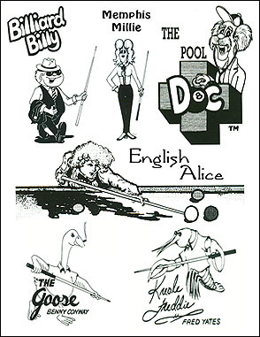 Snap Magazine Cartoon Mascots